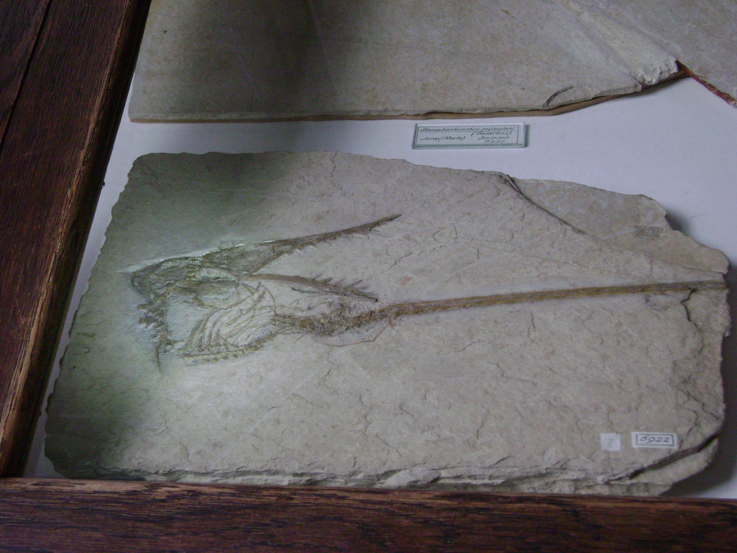 The holotype of Rhamphorhynchus gemmingi, TM 6922, at the Teylers Museum, Haarlem. R. gemmingi is now considered a jr synonym of Rhamphorhynchus muensteri